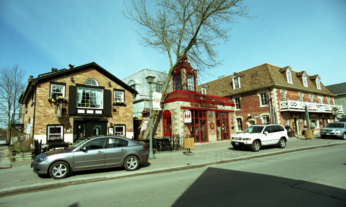 Main Street, Unionville, Ontario